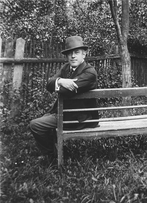 Czech conductor and composer František Picka (1873–1918)